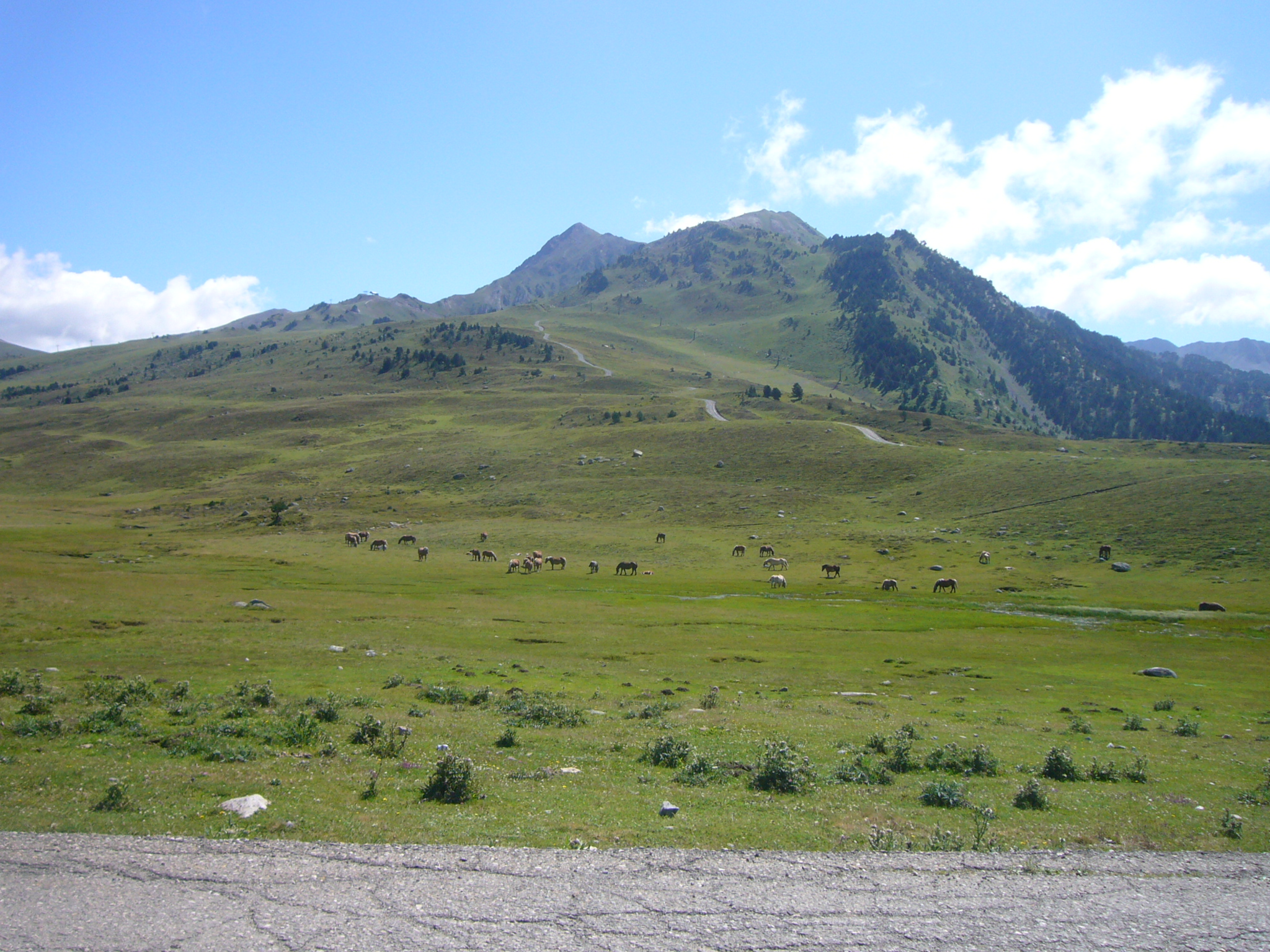 Summer image of the Pla de beret and the Baqueira ski resort. Plenty of horses around.